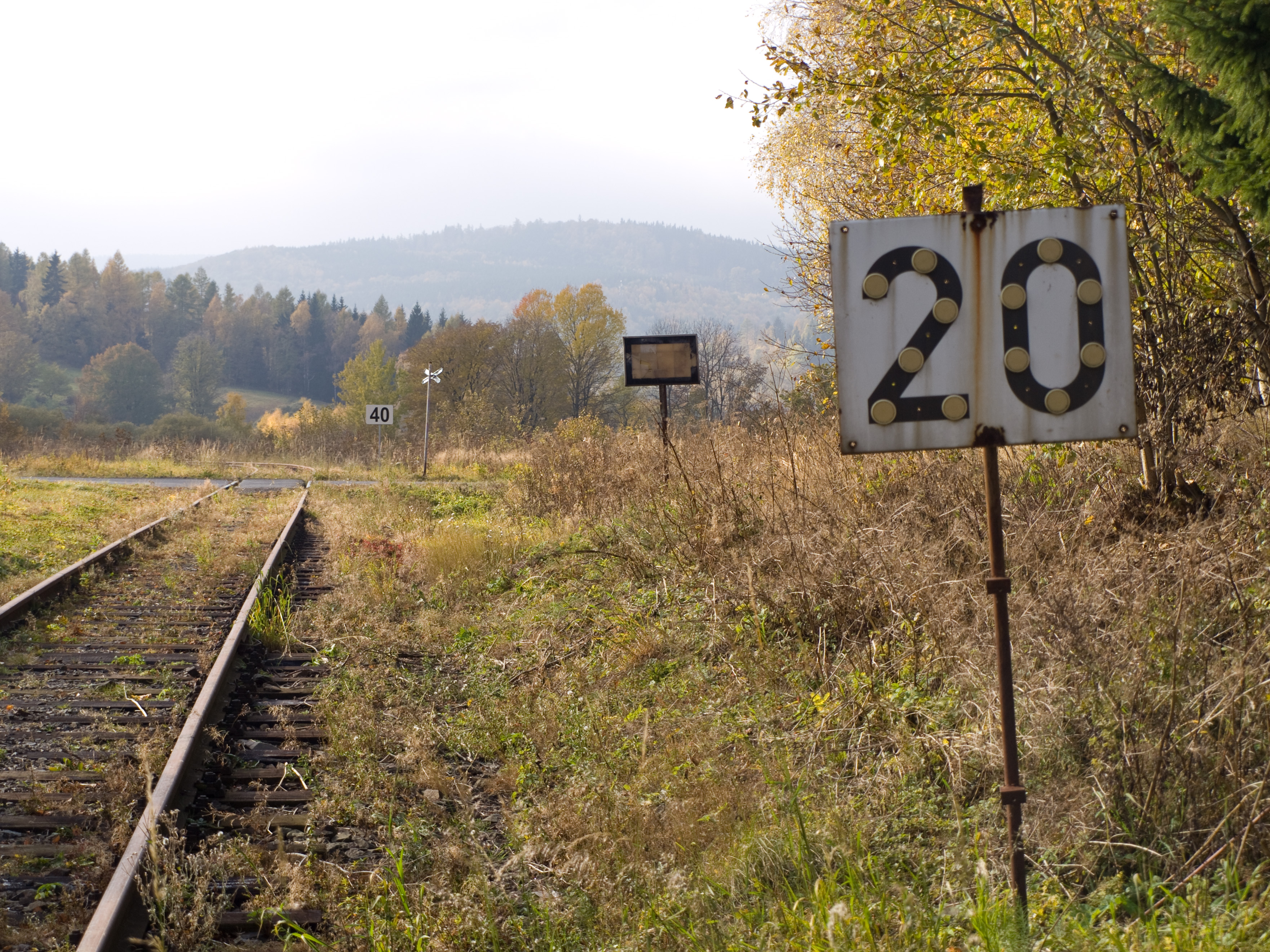 Rudná pod Pradědem zastávka, railway track n. 312 Bruntál – Světlá Hora – Malá Morávka